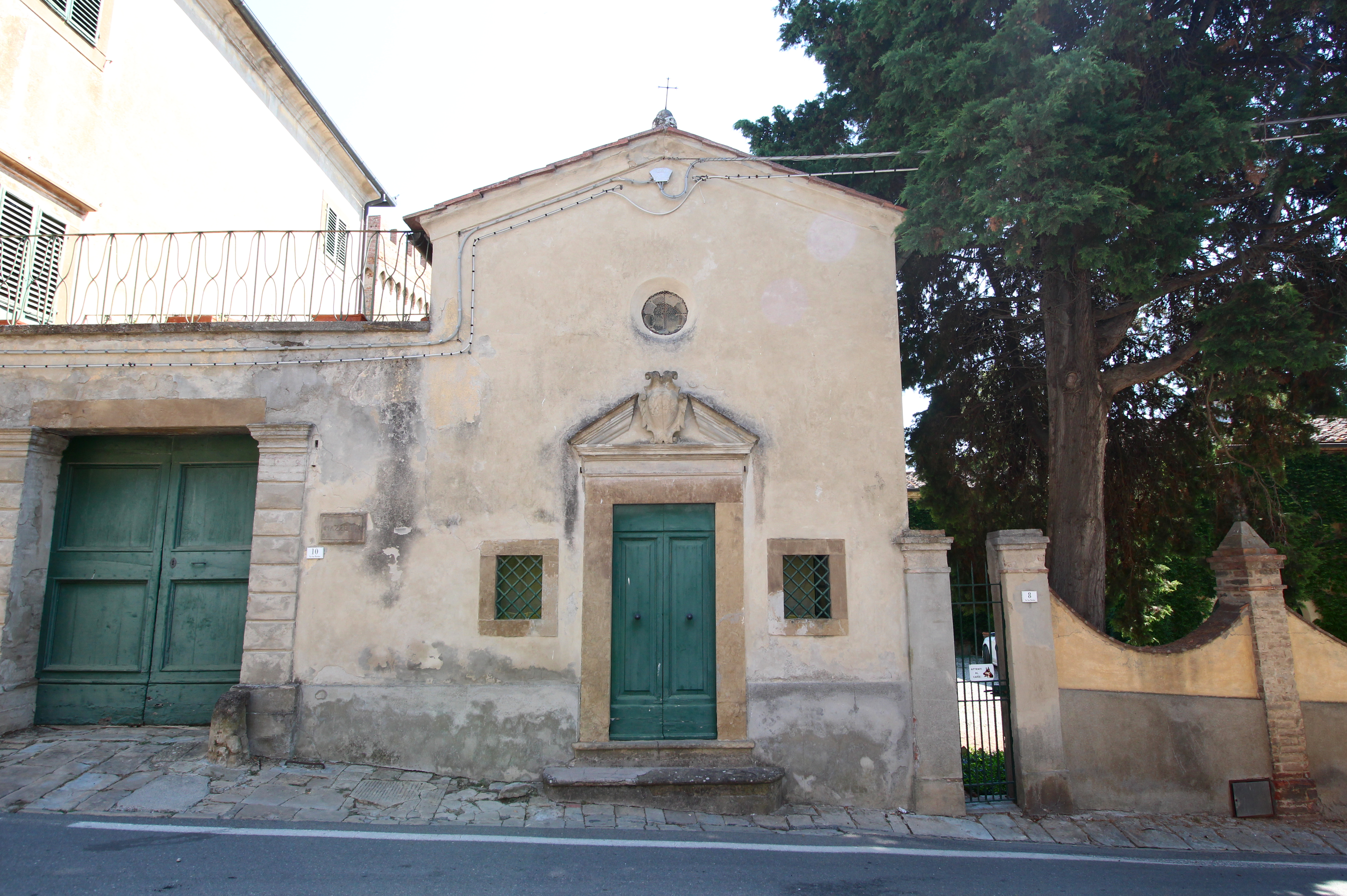 Church San Domenico (called San Martino), Montelopio, hamlet of Peccioli, Province of Pisa, Tuscany, Italy